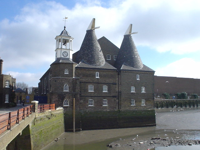 Clock Mill, Bow. Studio complex where the first two series of Big Brother were filmed.